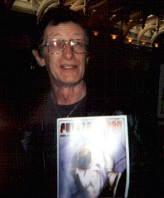 Alan Grant with small-press title FutureQuake. Cropped and centered on subject.